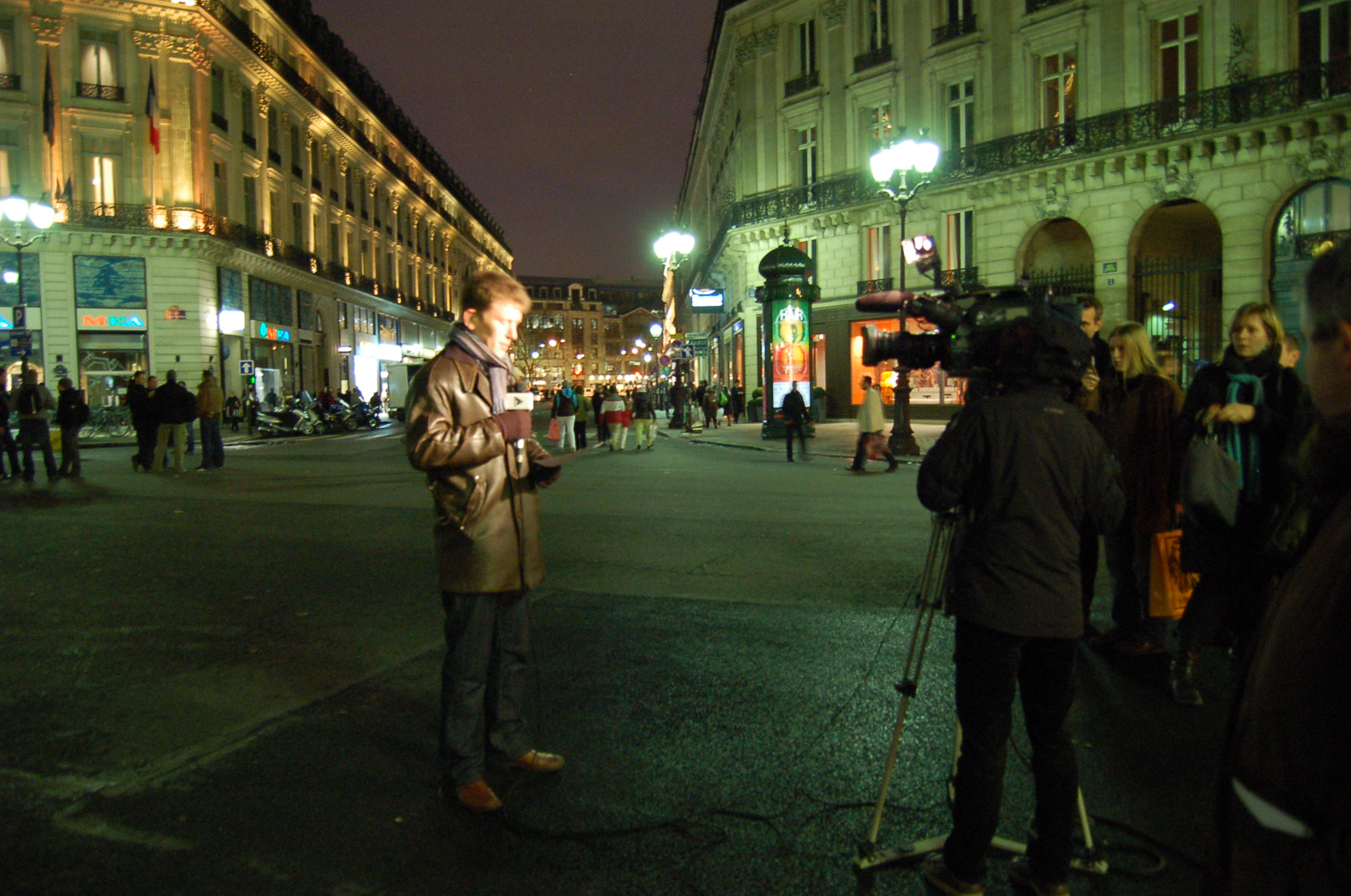 A journalist in the neighborhood of Opéra, Paris, France after a demonstration against the Israel's military intervention in Gaza - 17 january 2009.